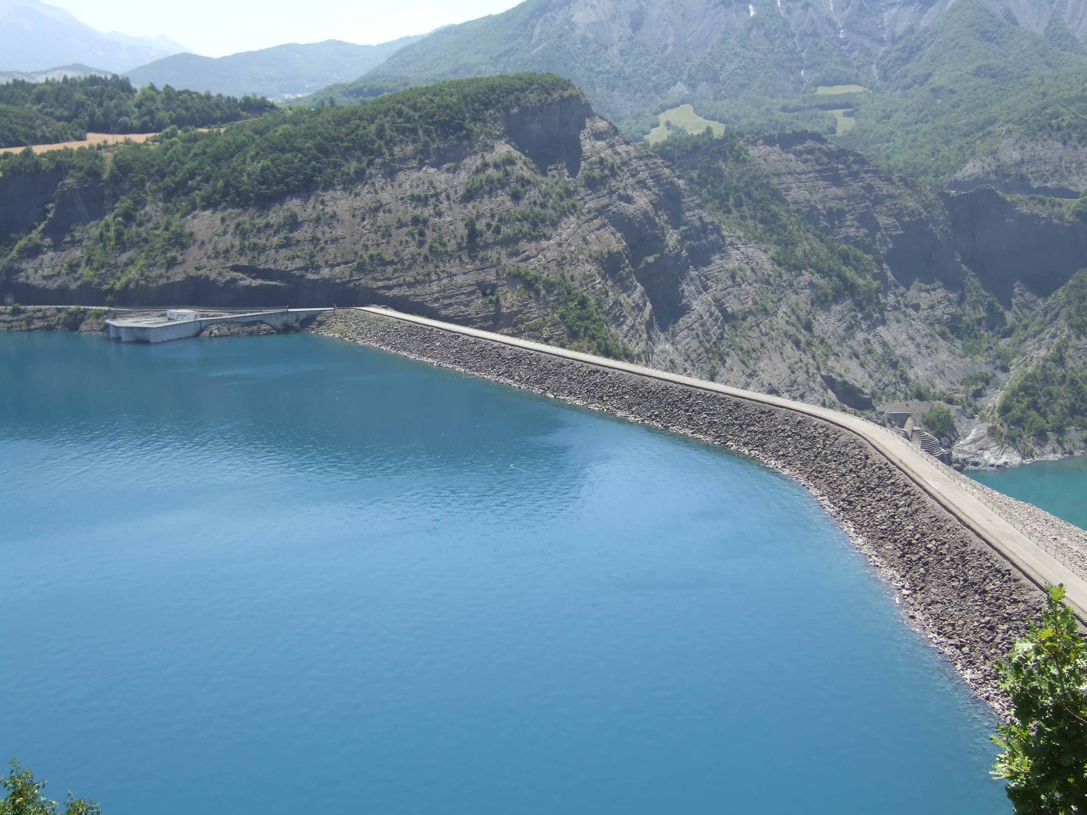 Dam of Serre-Ponçon (France)